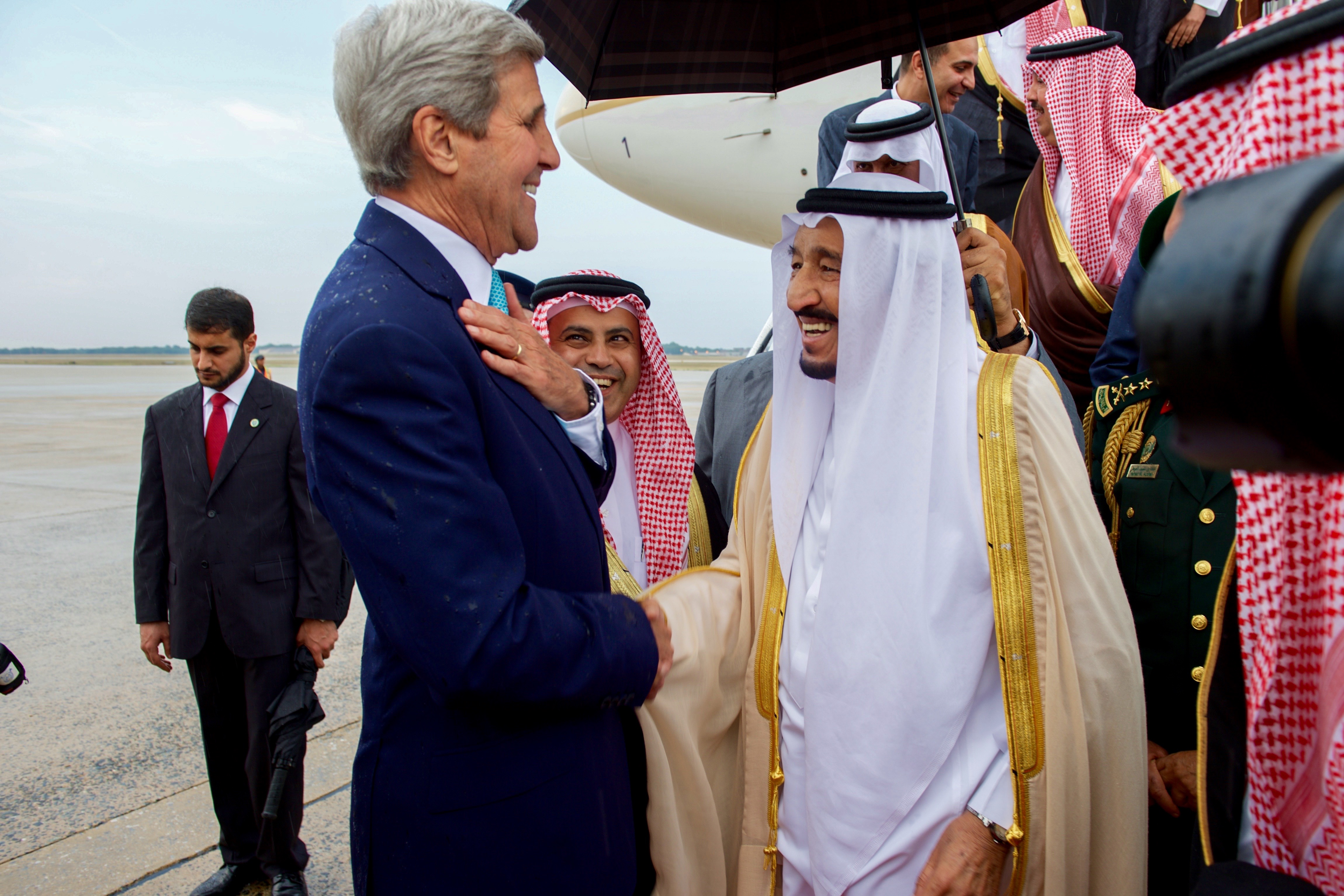 U.S. Secretary of State John Kerry speaks with King Salman bin Abdulaziz of Saudi Arabia after he deplaned from his Boeing 747 following his arrival at Andrews Air Force Base in Camp Springs, Maryland, on September 3, 2015, to visit President Barack Obama. [State Department photo/ Public Domain]